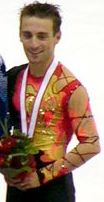 The men's podium at the 2004 NHK Trophy. From left: Timothy Goebel (2nd), Johnny Weir (1st), Frederic Dambier (3rd)